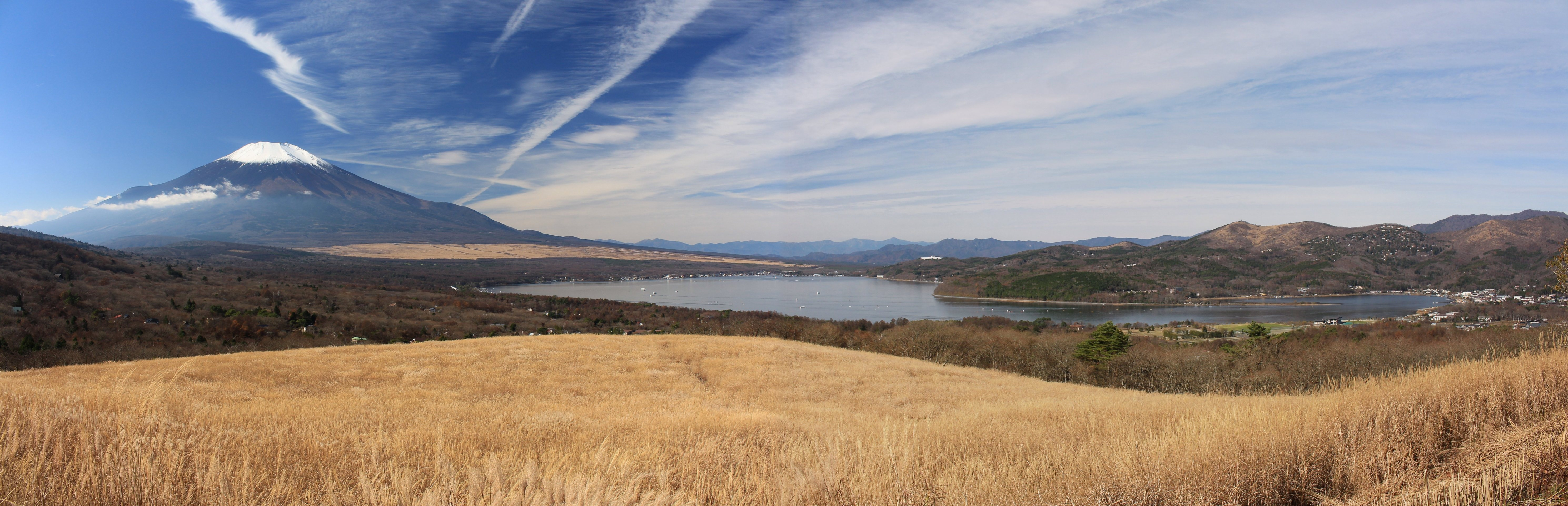 Mount Fuji and Lake Yamanaka seen from Mount Myōjin in Yamanakako, Yamanashi prefecture, Japan.